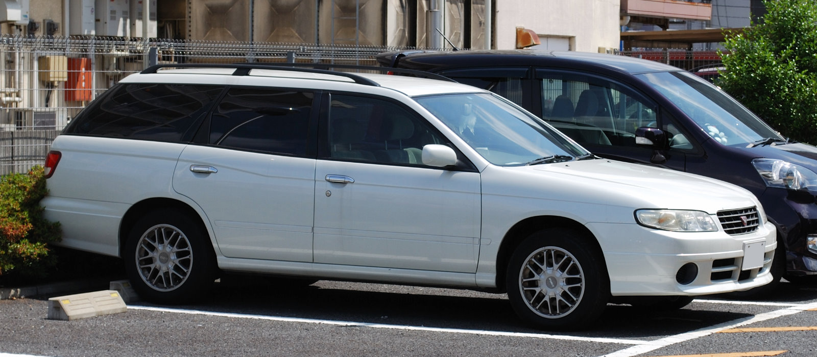 2nd generation Nissan Avenir (1998/8 - 2000/5)